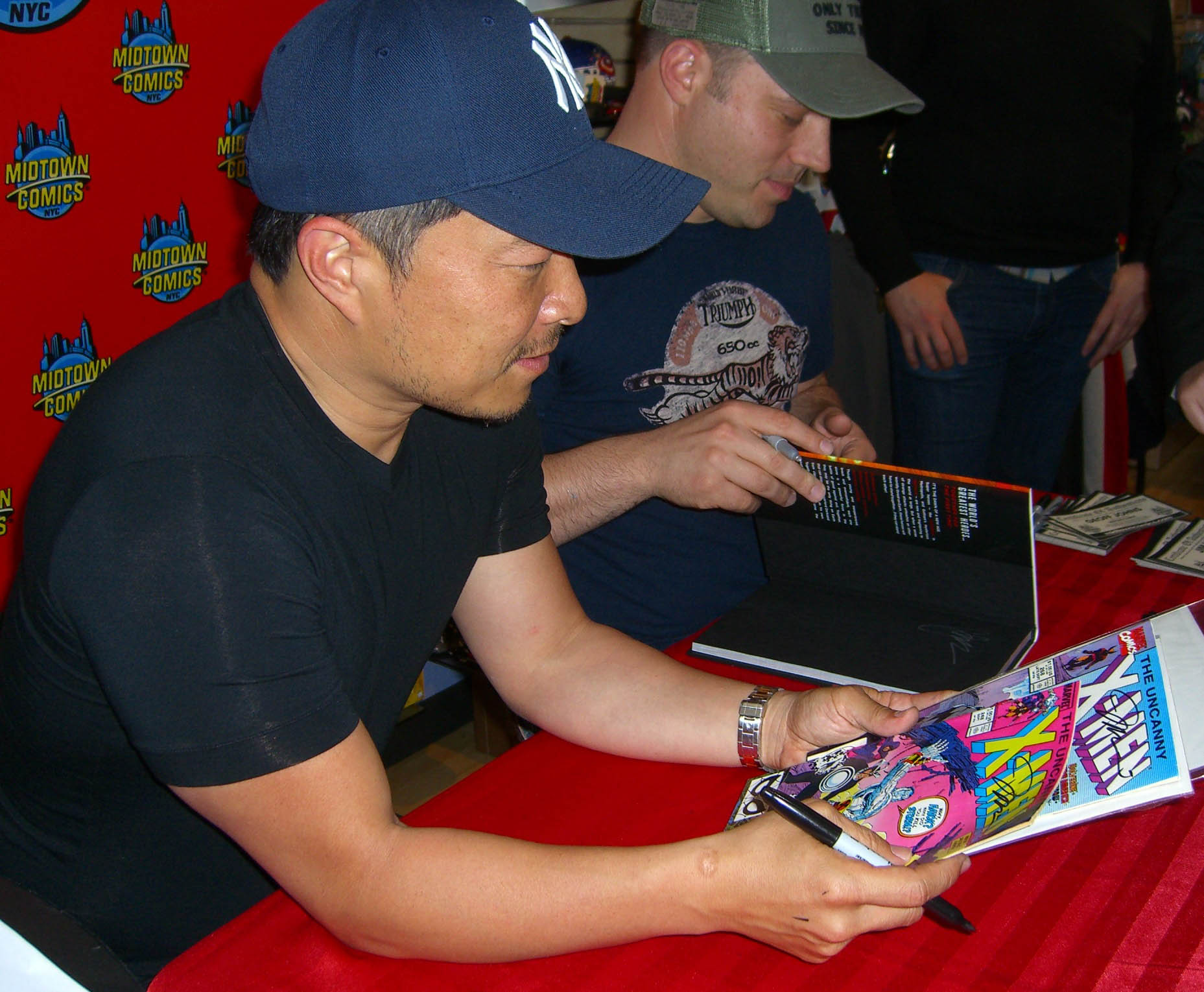 Comic book creators Jim Lee (left) and Geoff Johns (right) at a May 11, 2012 signing at Midtown Comics Downtown in Lower Manhattan for Justice League Vol. 1: Origin, the hardcover collection of the first six-issue story arc of Justice League volume 2, the monthly series whose debut in September 2011 initiated The New 52, the company-wide relaunch of all of DC Comics' superhero titles. In the photo, Lee is handling copies of Uncanny X-Men, the title on which he rose to stardom as an artist in the 1990s. This photo was created by Luigi Novi. It is not in the public domain, and use of this file outside of the licensing terms is a copyright violation.